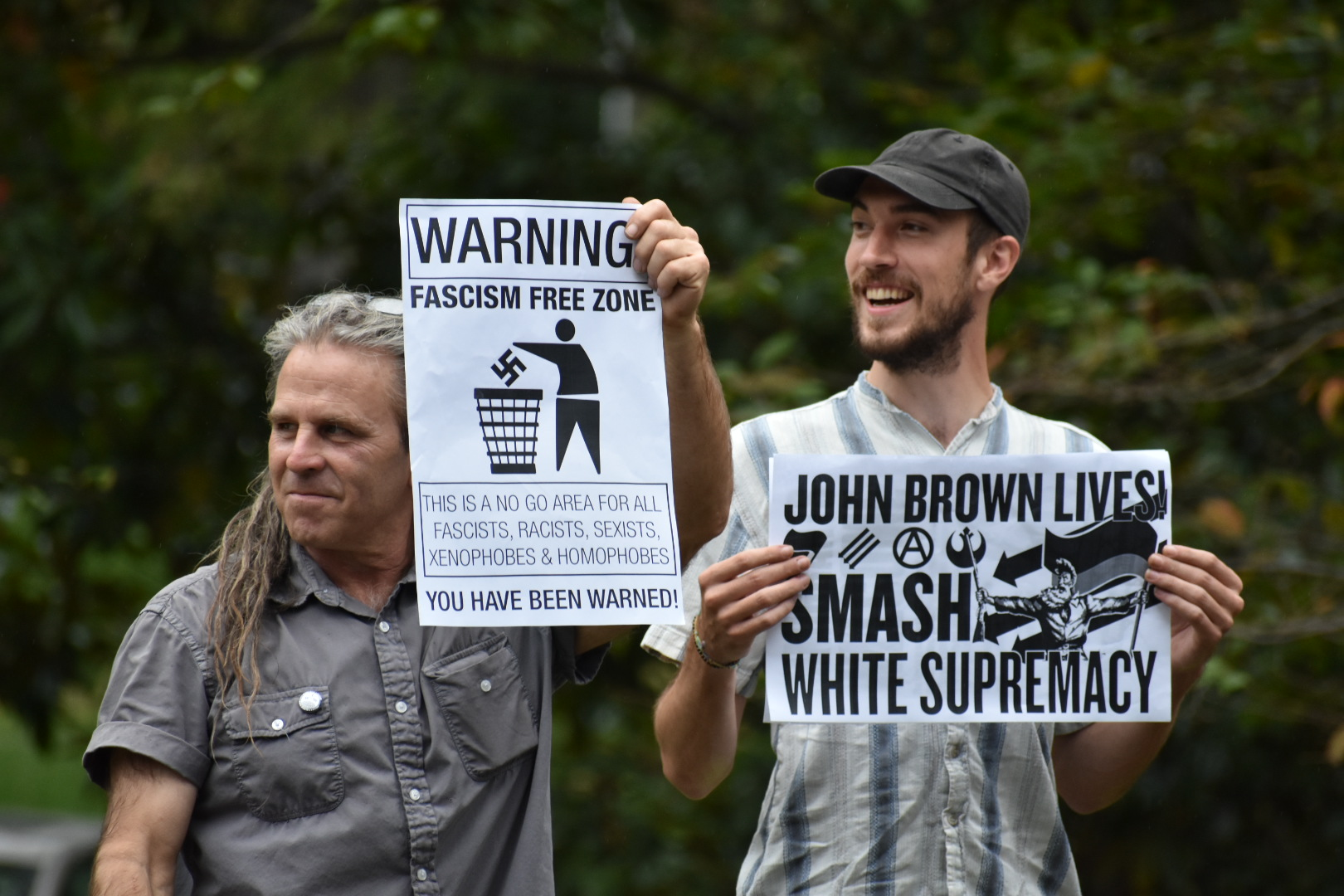 When Trump came to Greensboro for a fundraiser, over a hundred residents showed up in protest or support.